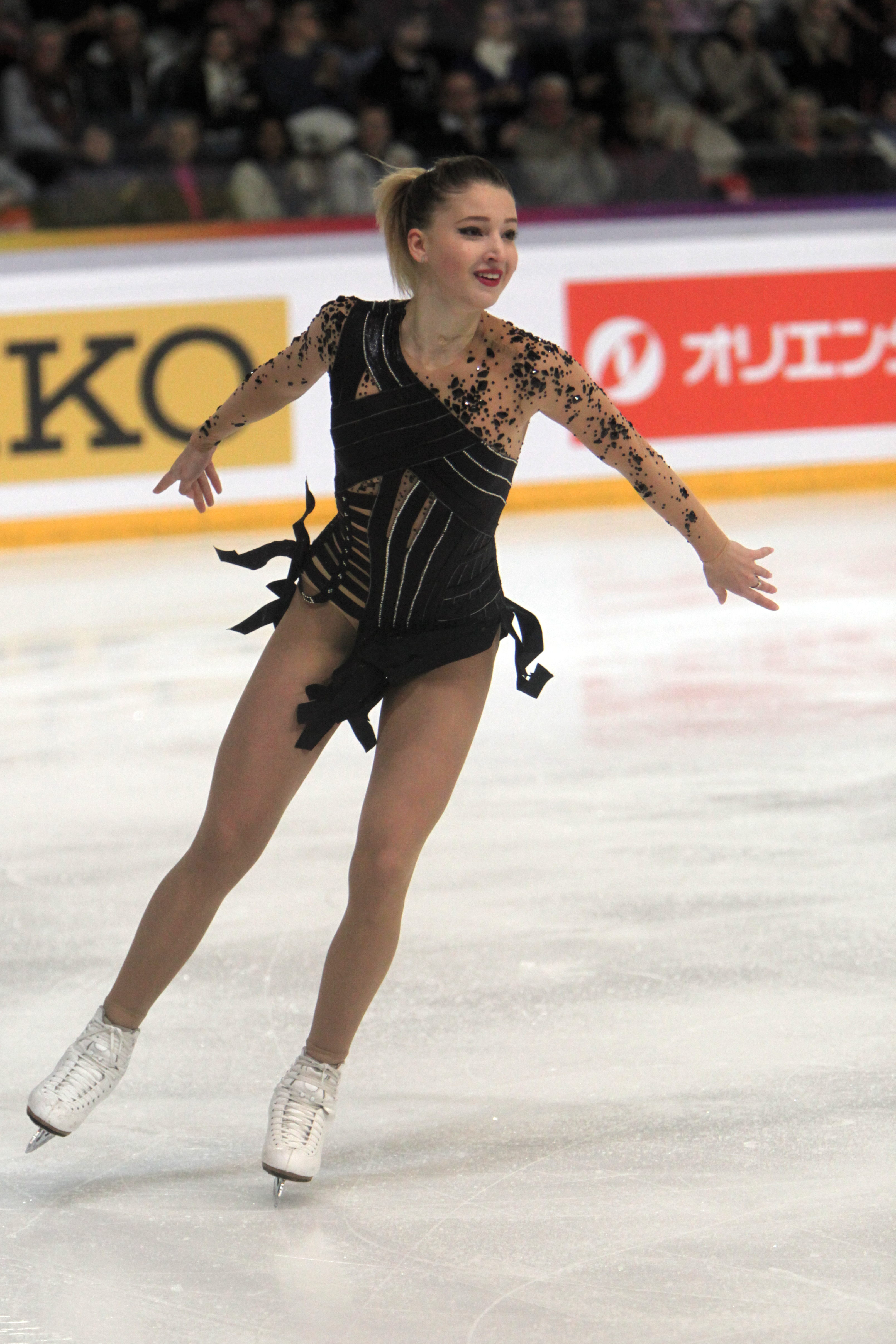 Maria Sotskova during the Ladies Free Skating at the Internationaux de France de Patinage 2018.